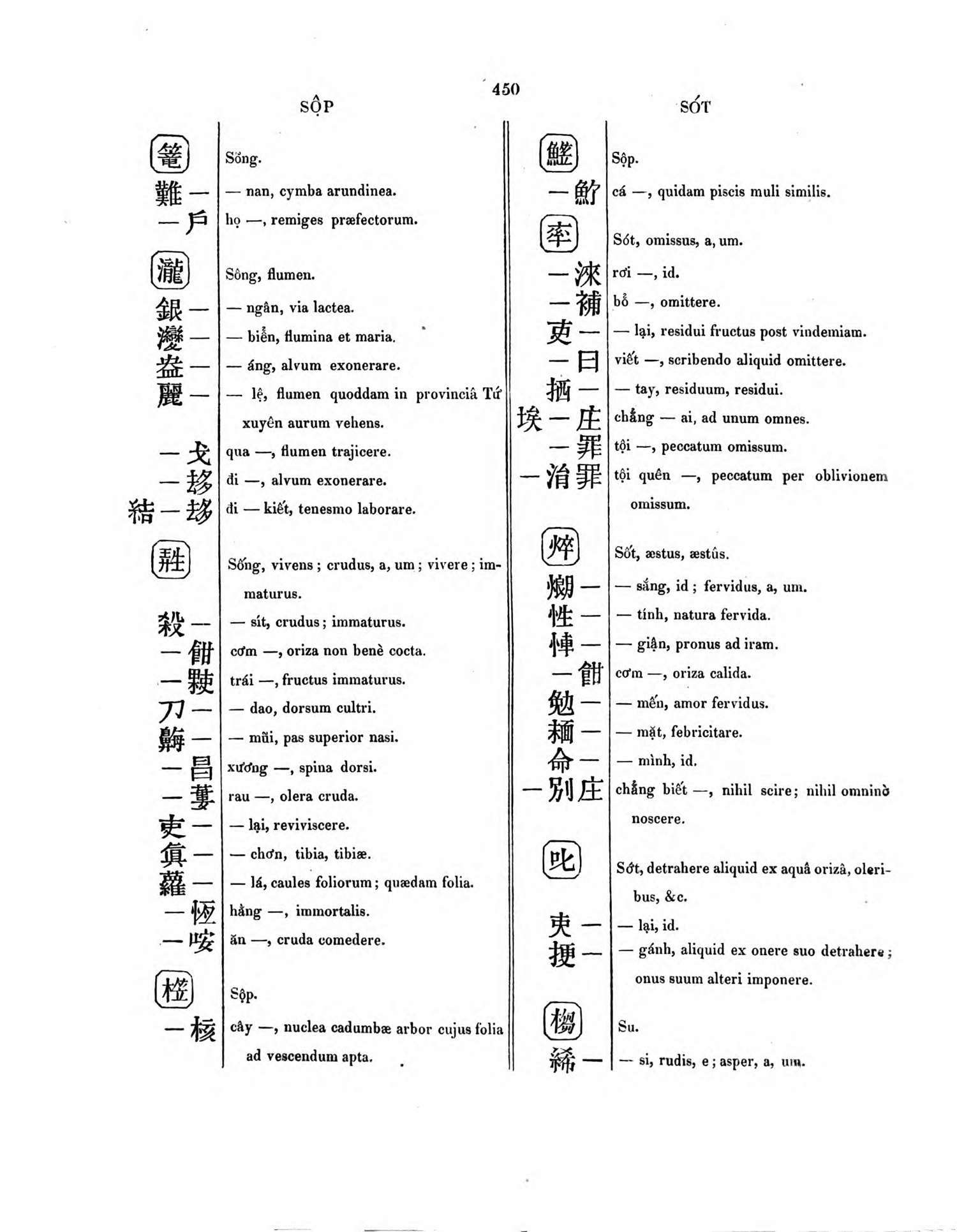 Page 450 (sộp/sót) of the bilingual Annamese-Latin dictionary Dictionarium anamitico-latinum (1838). In each entry, chữ Nôm is written right-to-left, followed by quốc ngữ and Latin written left-to-right.